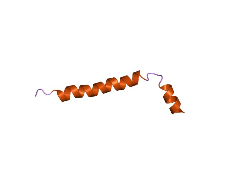 Cartoon representation of the molecular structure of protein registered with 1hj0 code.